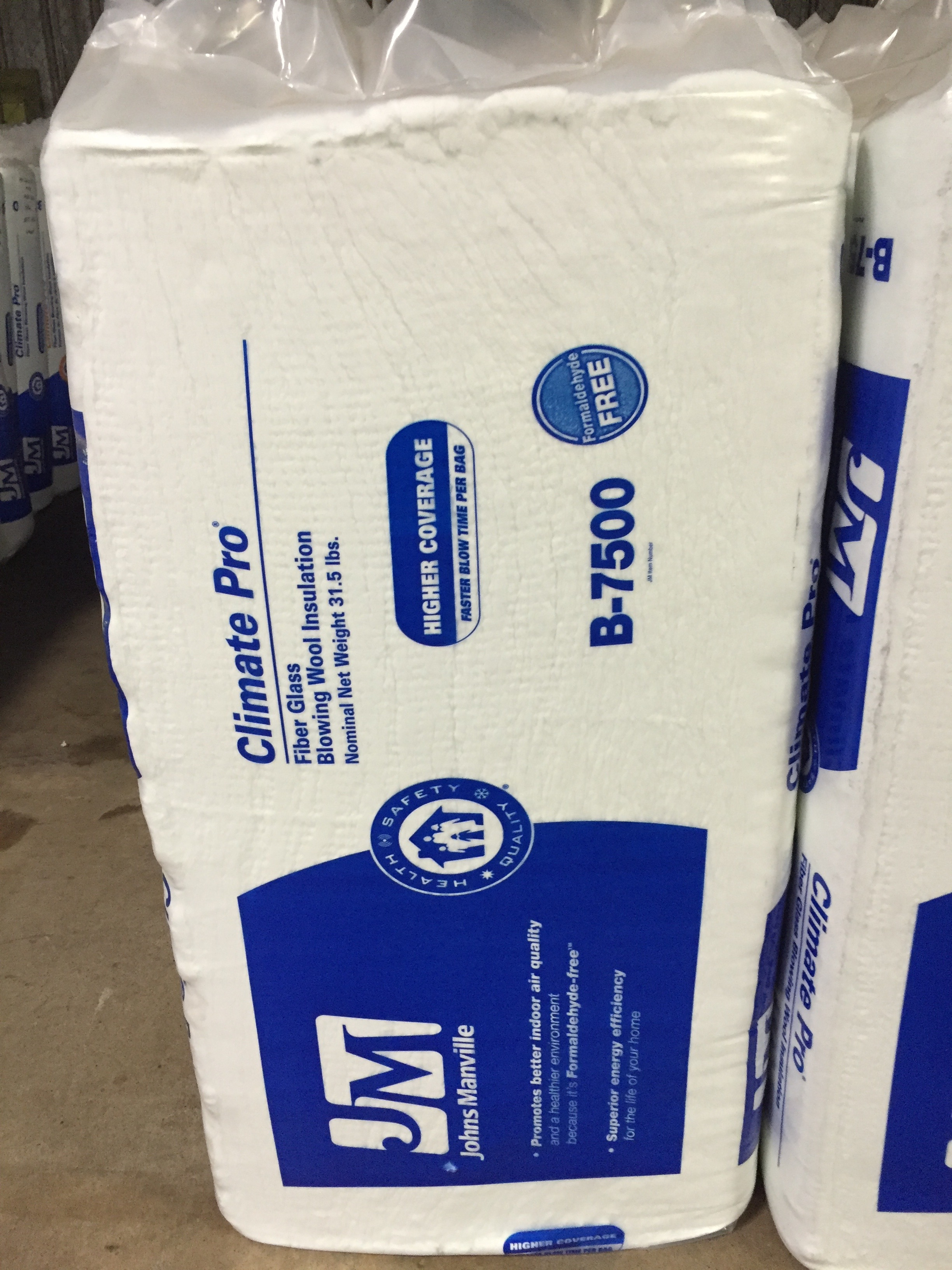 Johns Manville Insulation